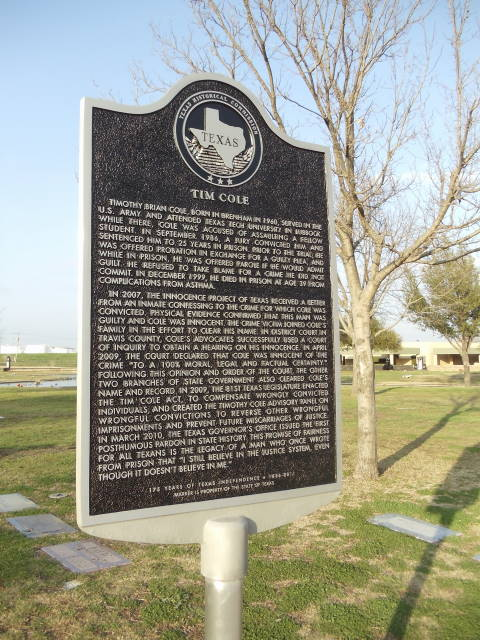 Tim Cole